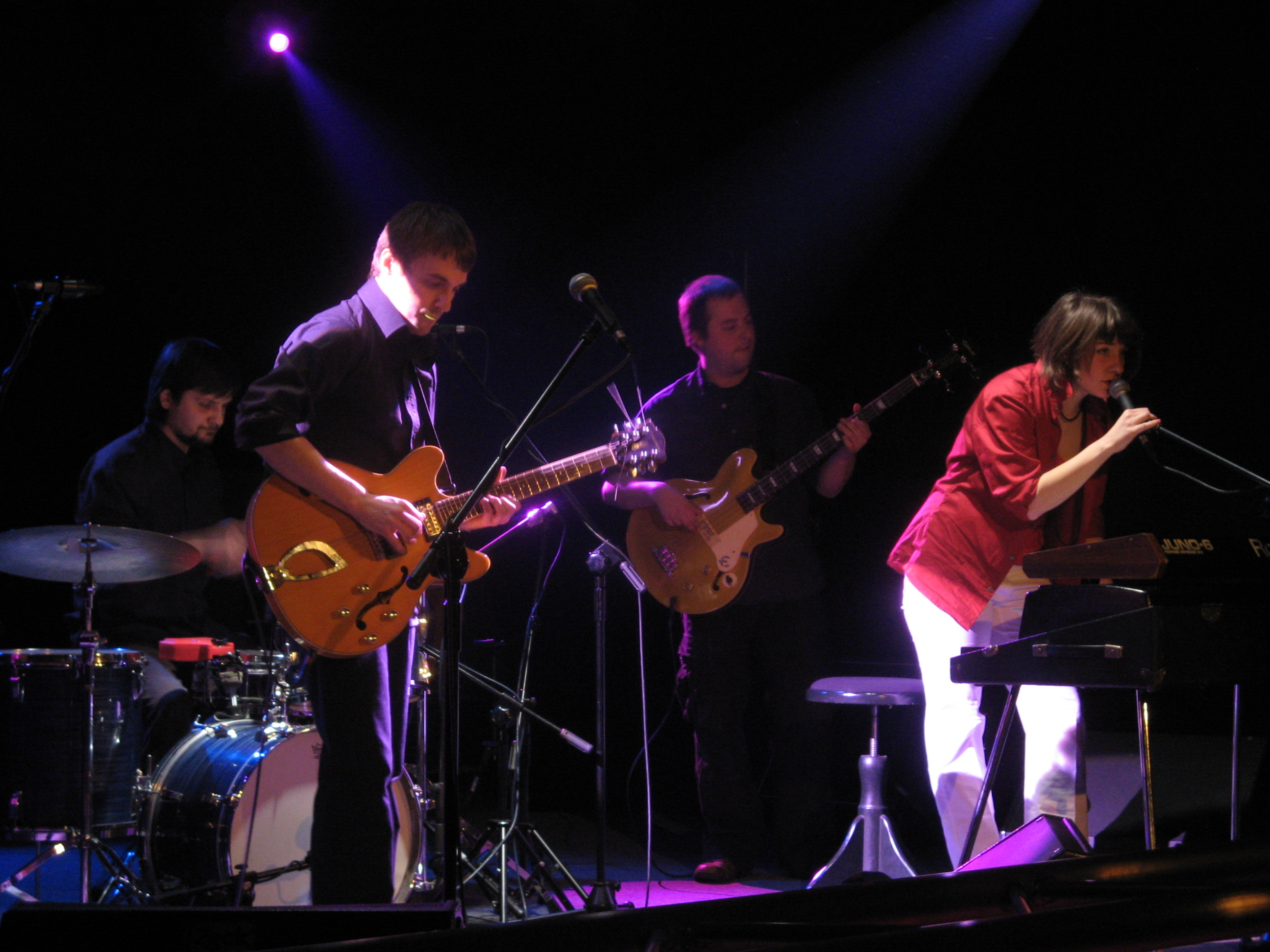 Pustki - polish band (concert in Firlej, Wroclaw)